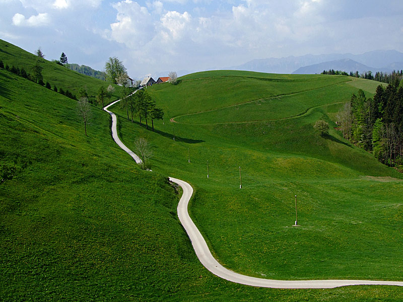 The hilly landscape above Idrija, near the village of Idrijske Krnice